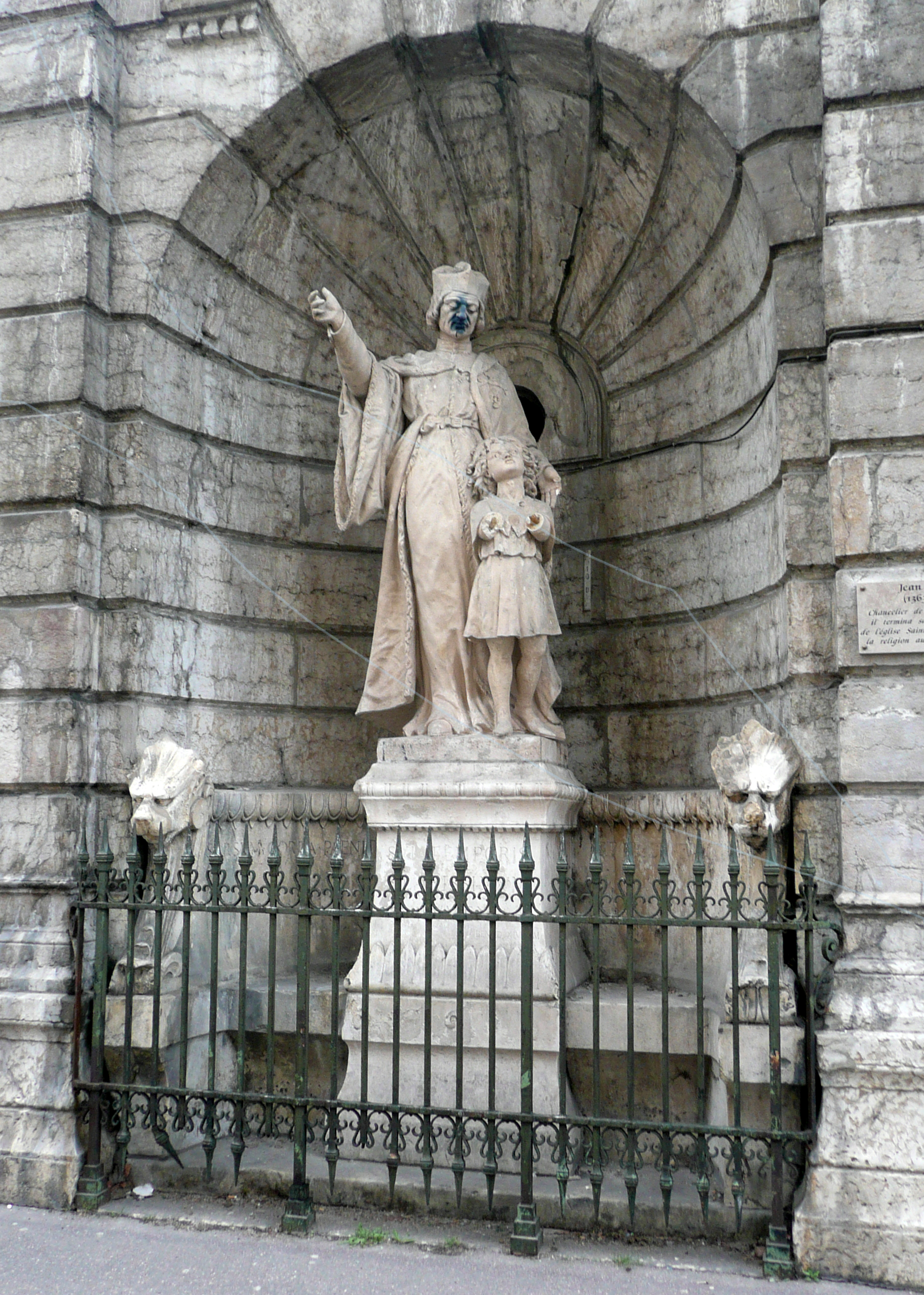 Statue of Jean Gerson in Lyon